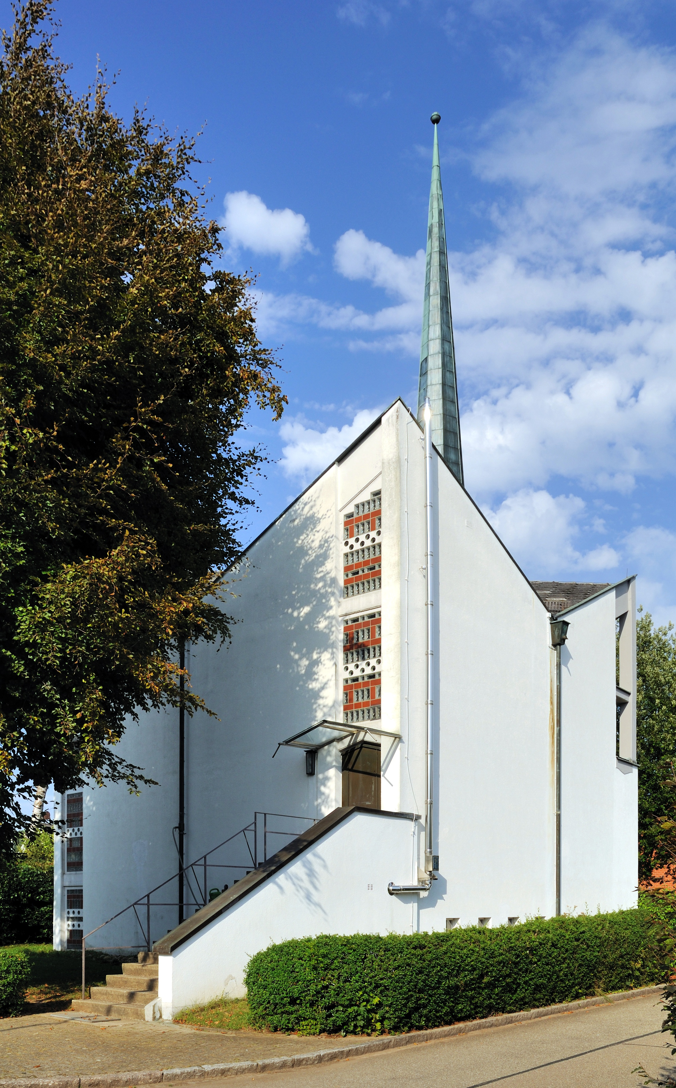 Steinen: Lutheran Church